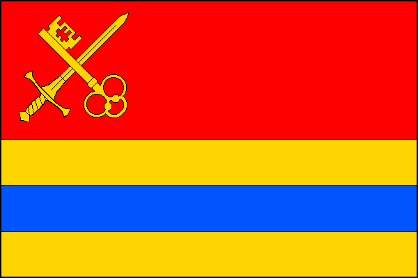 Municipal flag of Dříteč village, Pardubice District, Czech Republic.